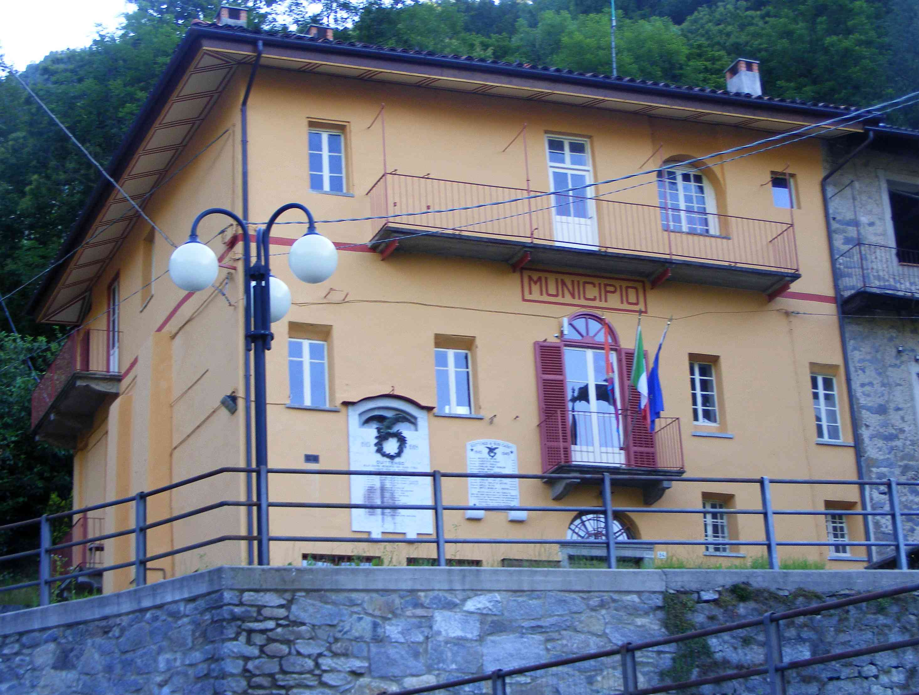 Quittengo (BI, Italy): town hall